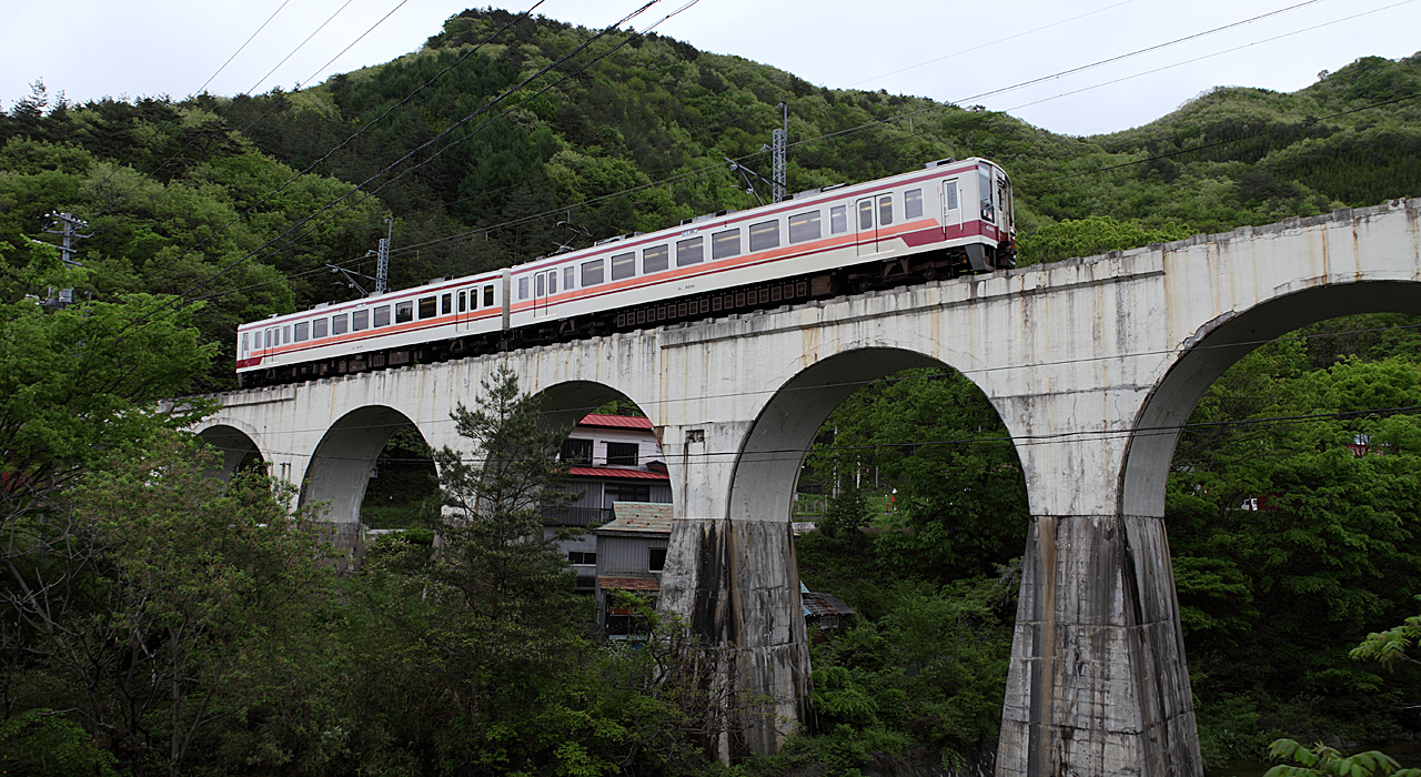 Aizu Railway 6050 series EMU (61201F)